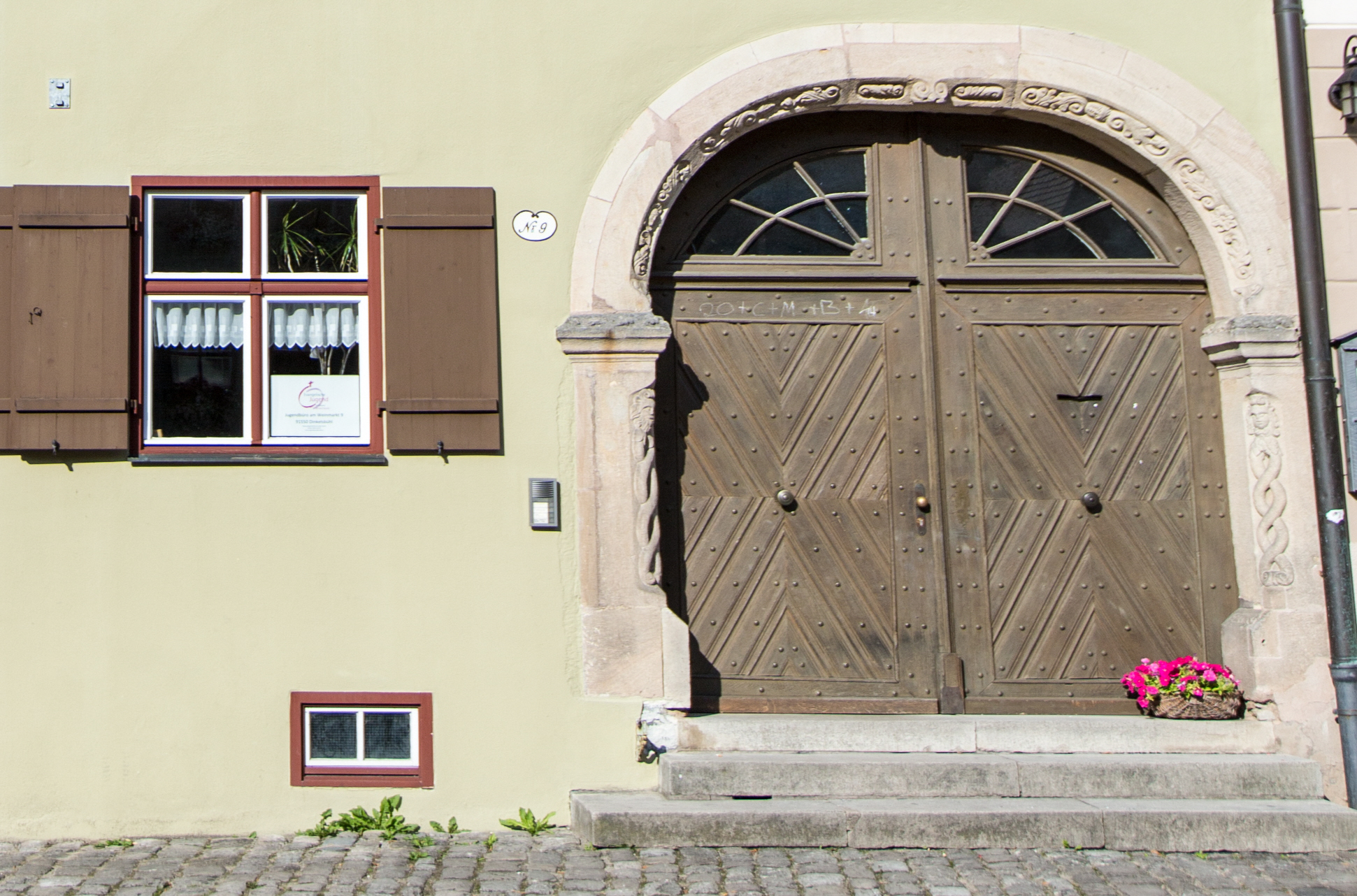 This is the historic portal of a Dinkelsbuehl house built in 1494. The style is of the Italian Renaissance.